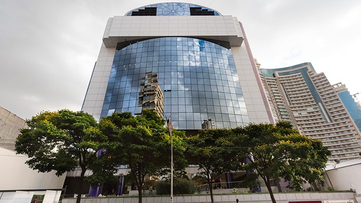 Unidade Operacional de Pinheros do Sesc São Paulo. Localizado na Rua Paes Leme, 195. São Paulo